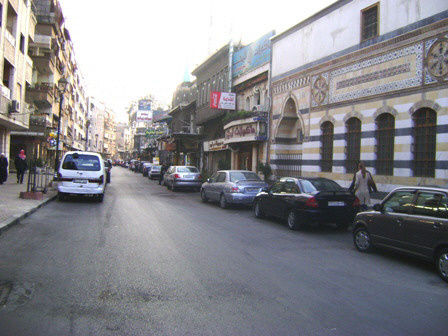 Jezmatiyeh Street